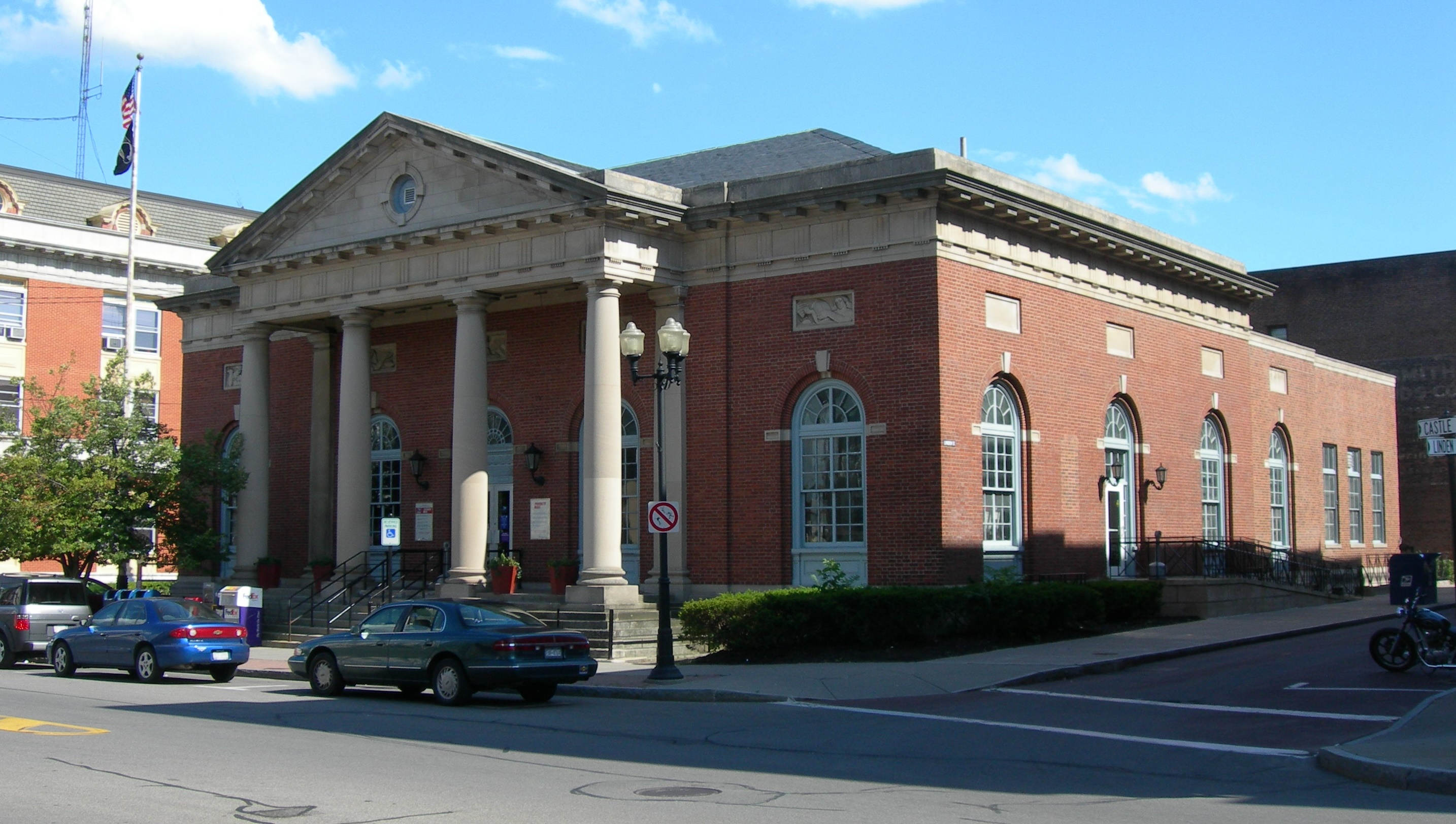 Built around 1932. New Deal Mural